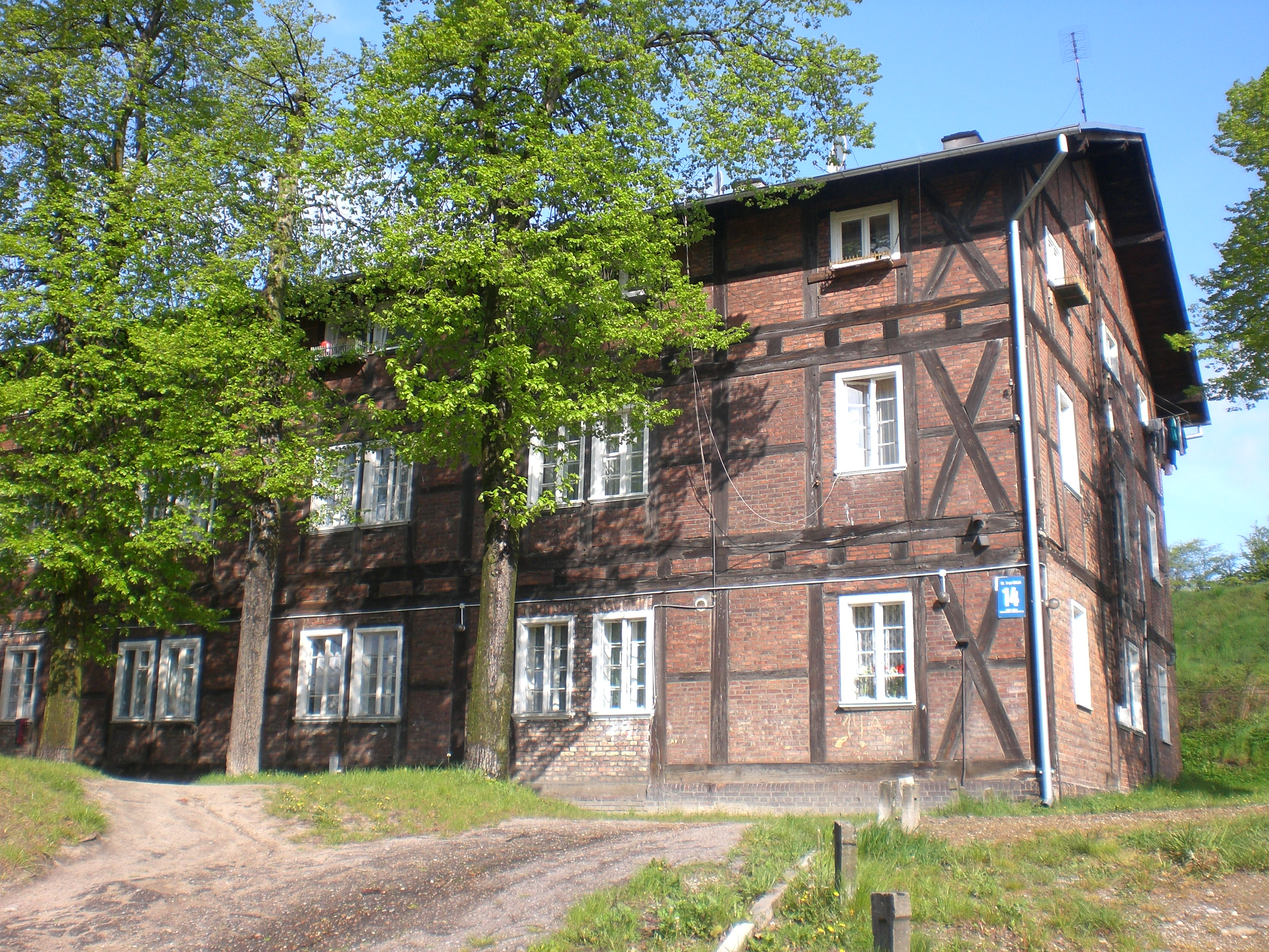 Former carriage house on the Góra Gradowa (Hail Peak) in Gdańsk.